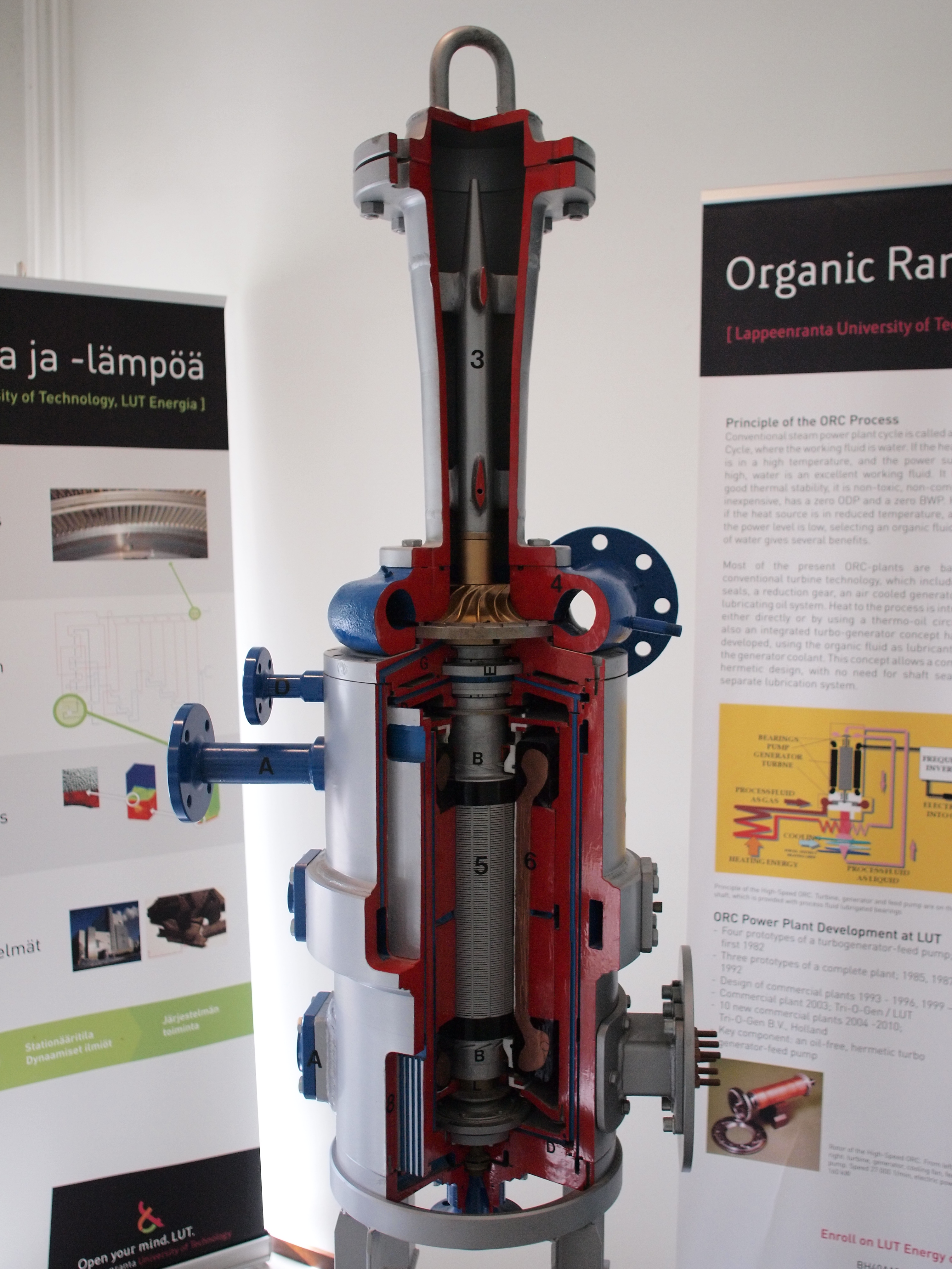 75-kilowatt Organic Rankine Cycle power plant originally used at Kuopio (Finland) ORC plant during 1986 - 1990. The turbo generator is designed by Lappeenranta University of Technology. Its nominal speed is 27 000 rpm. The generator is fully hermetic; there are only flanged connections and no rotating shaft seals. Bearings are lubricated by the liquid process fluid.